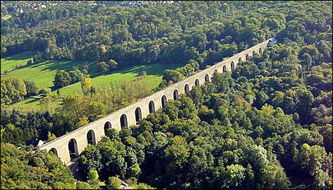 Marly Machines. Aqueduct of Buc nowadays.